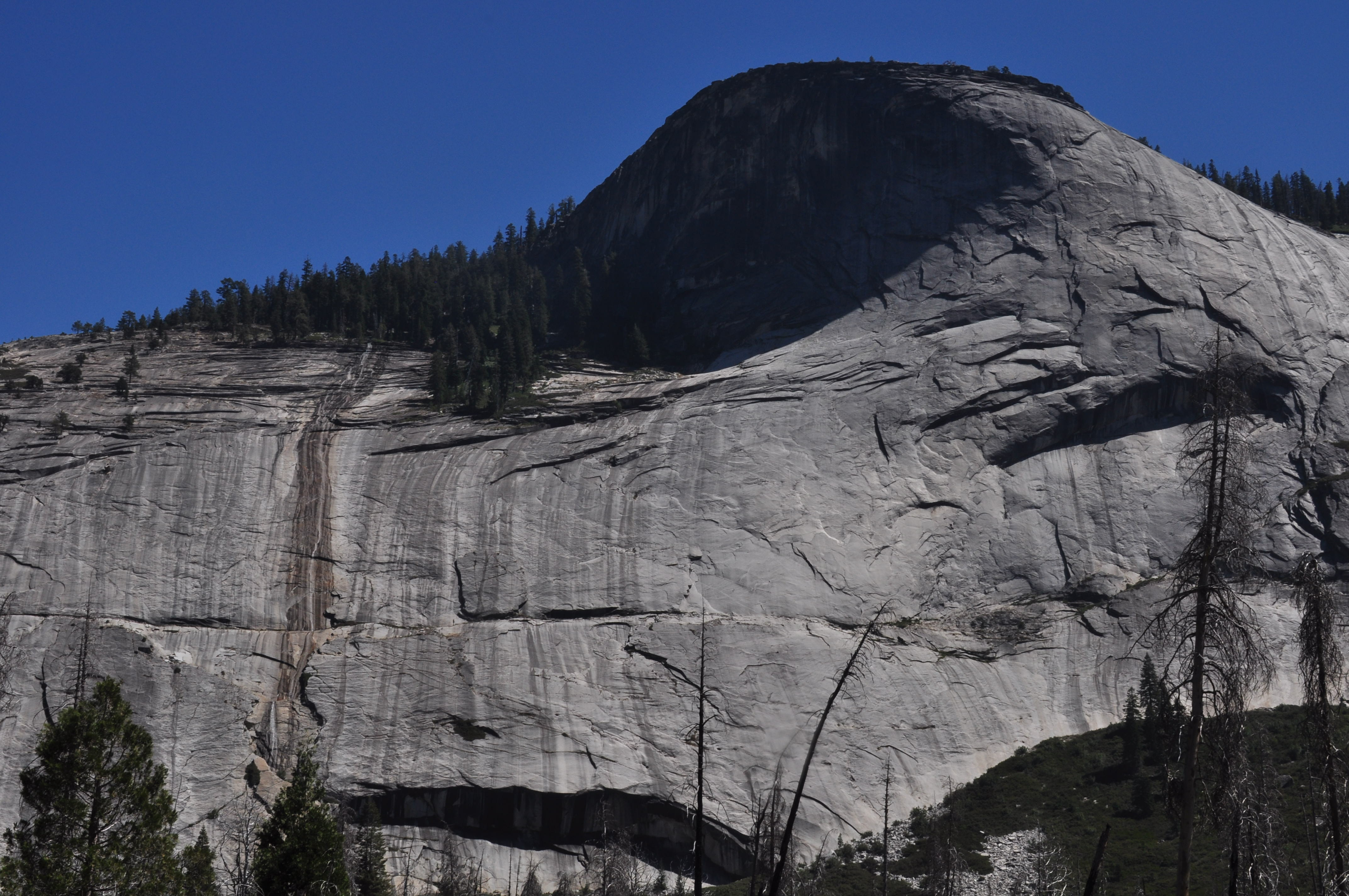 Cascade Cliffs from Little Yosemite Valley, in Yosemite National Park.